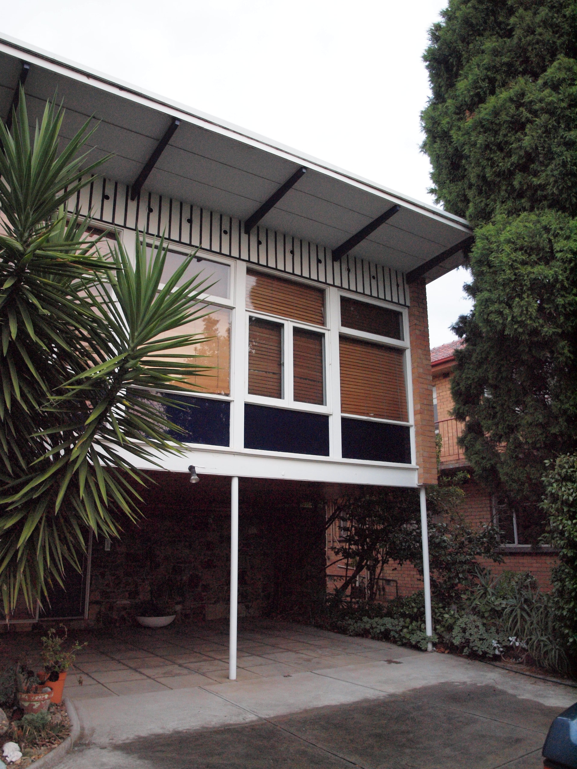 Modern front facade of House at Caulfield